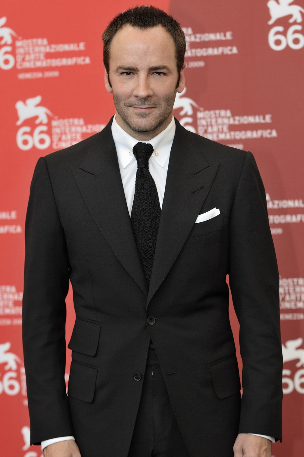 Tom Ford at 2009 Venice Film Festival